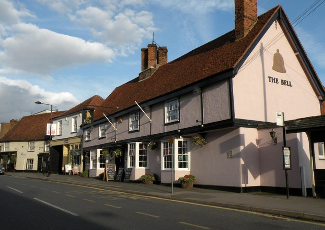 'The Bell' inn at Ingatestone This old timber-framed building stands along the High Street.